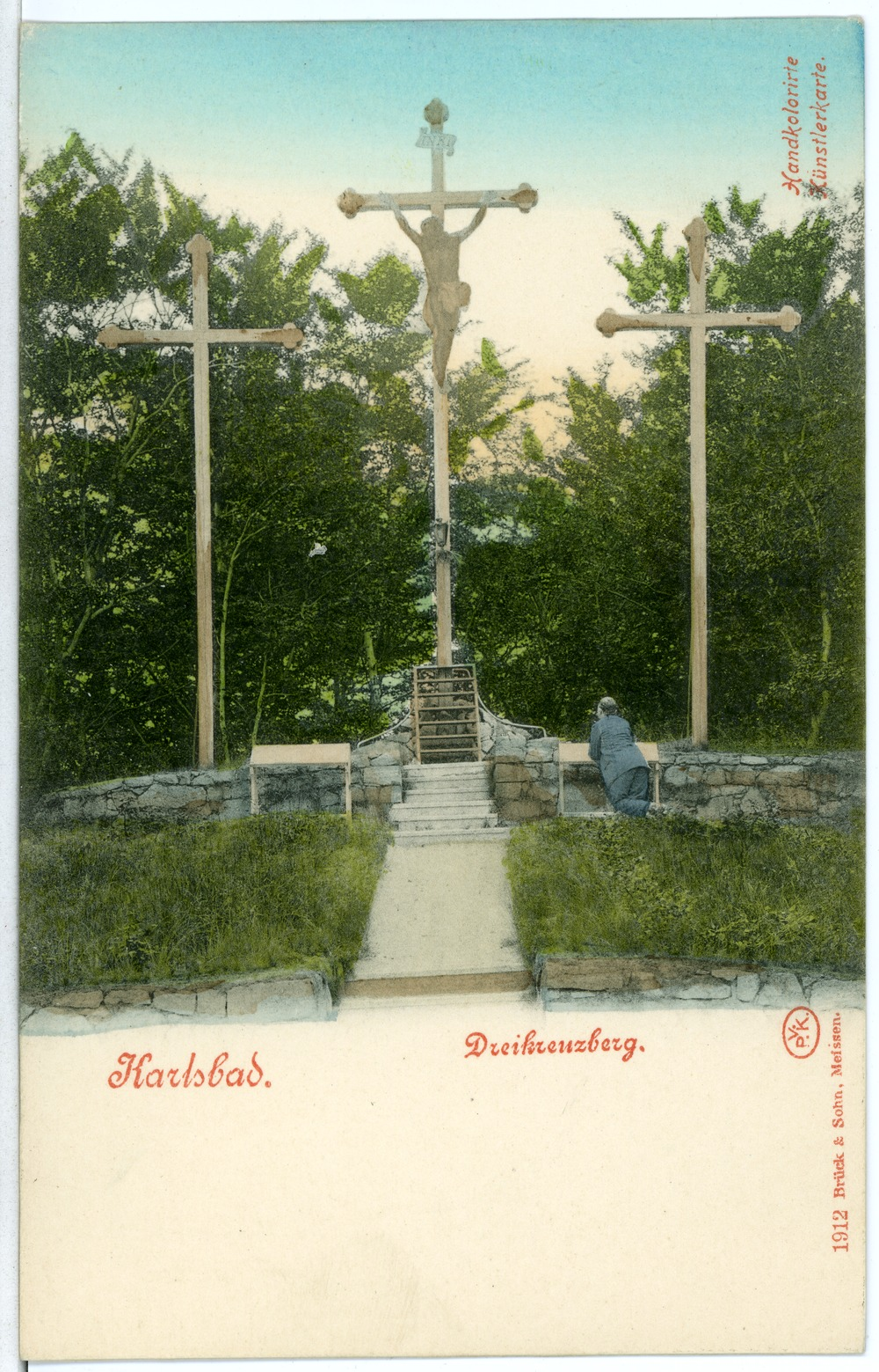 This postcard is from publisher Brück & Sohn in Meißen ( This postcard has a unique number 01912 and is available in a higher resolution at the publisher. This images was uploaded in a cooperation project between Wikipedians and the publisher.